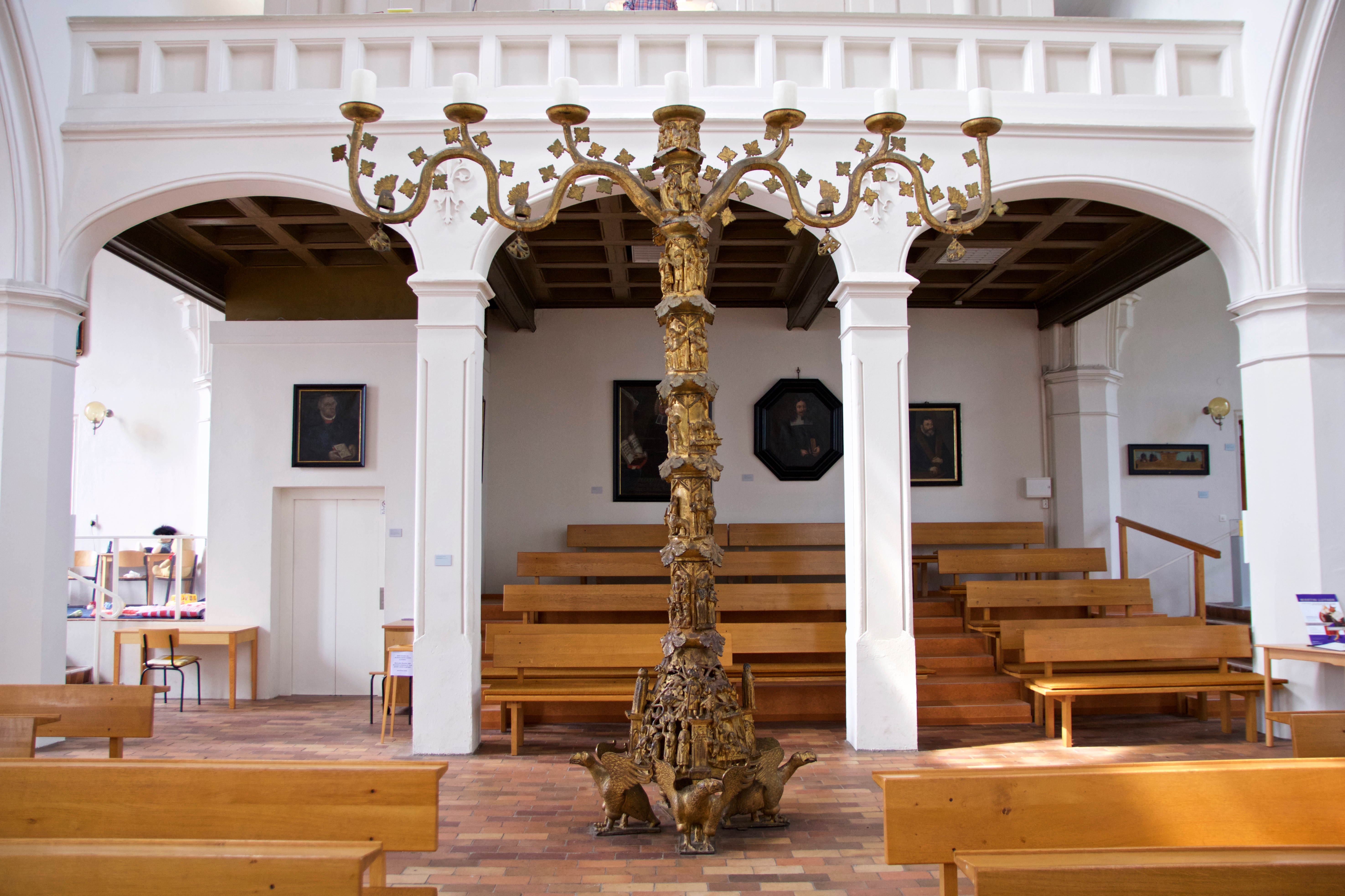 Late 14th-century seven-armed bronze candelabra, originally from St Mary's Church and later transferred to St Gertraud's Church in Frankfurt (Oder)